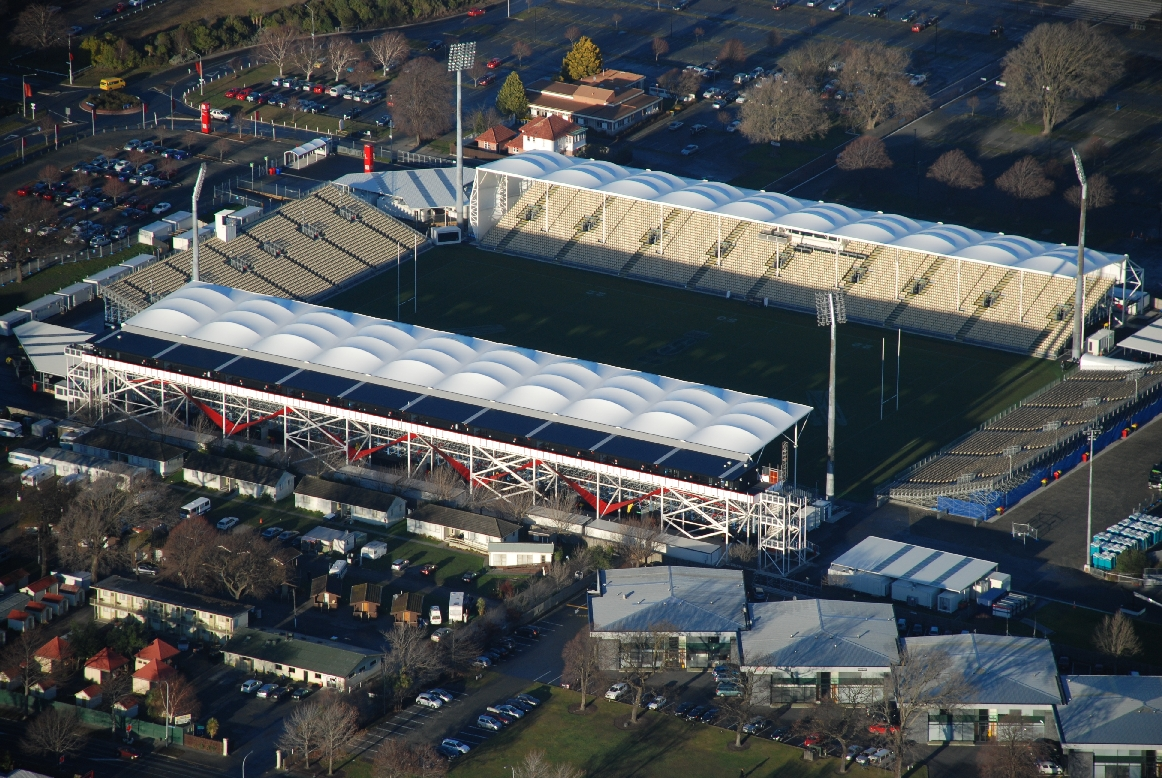 Helicopter flight over Christchurch in July 2012.